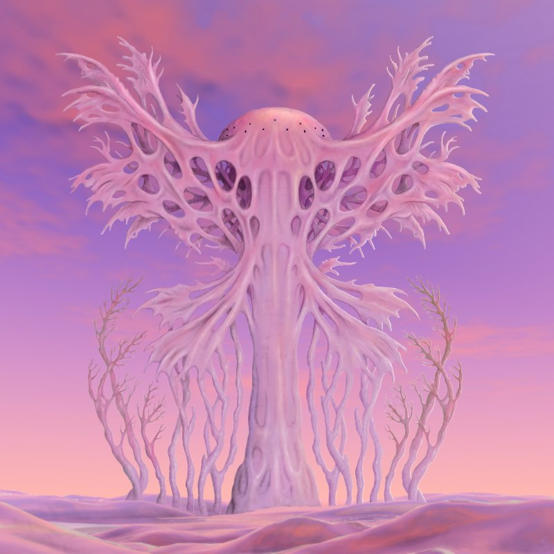 The final stage of forming of a symmetriad